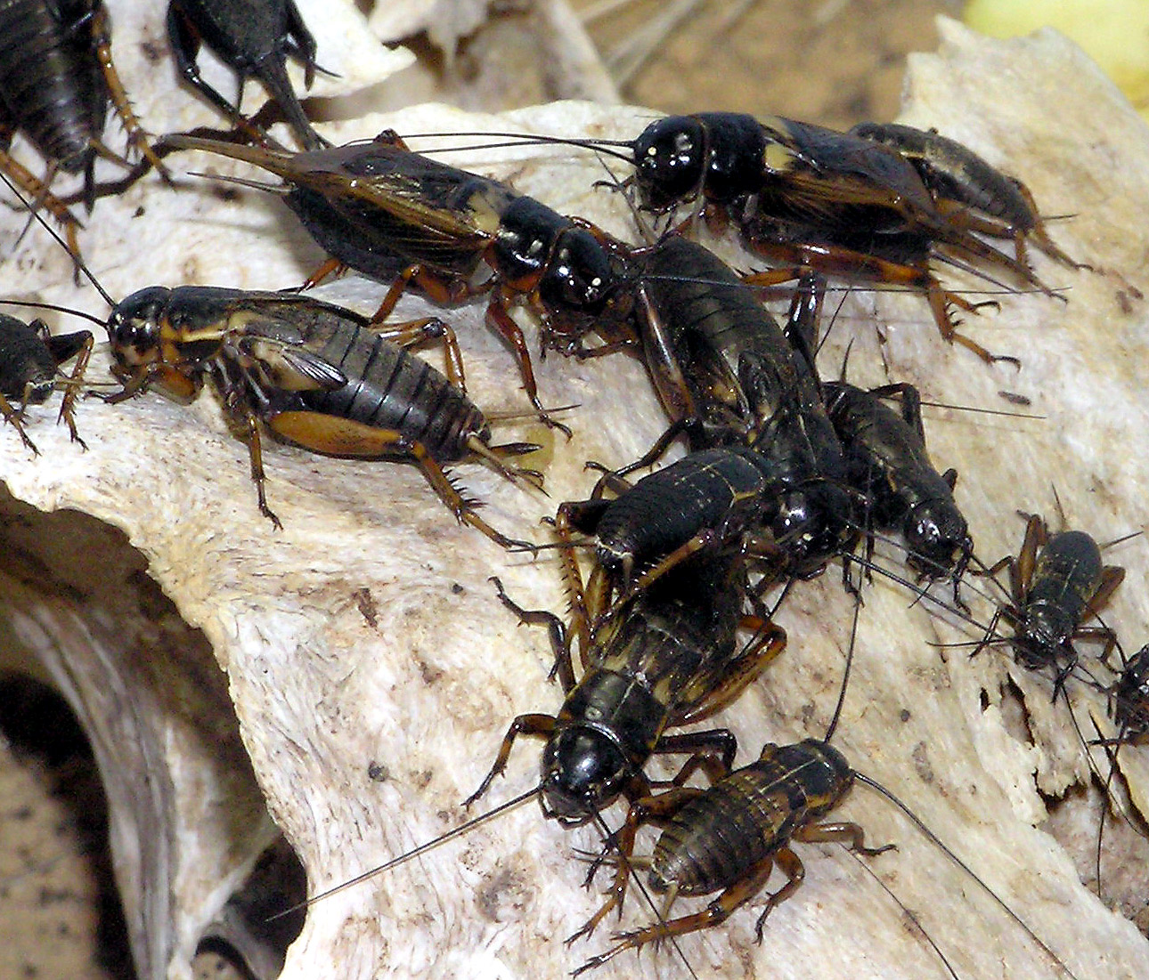 African Field cricket Gryllus bimaculatus at Bristol Zoo, Bristol, England. Photographed by Adrian Pingstone in February 2005 and released to the public domain.